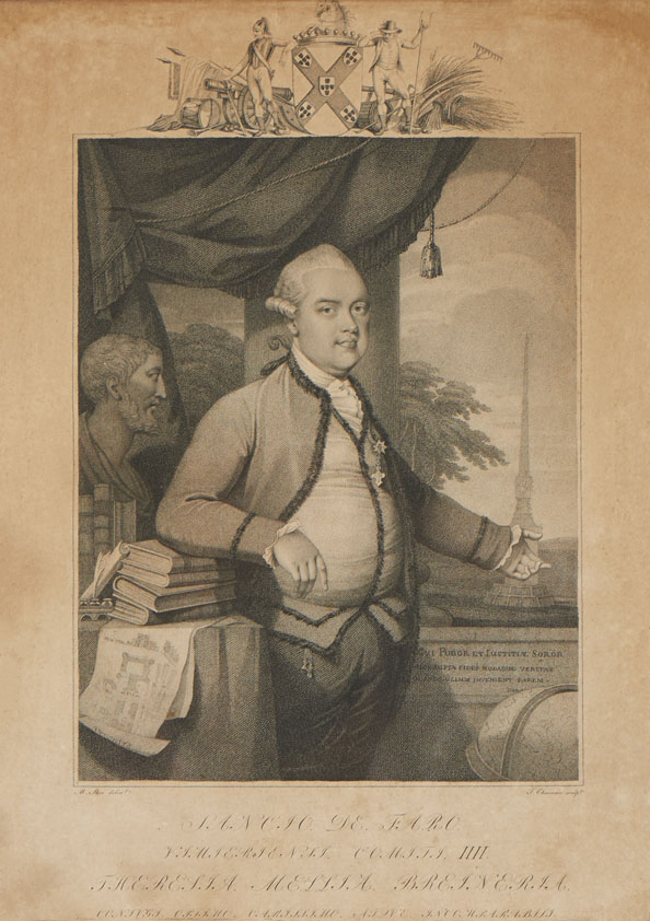 Portrait engraving of Sancho de Faro e Sousa, 4th Count of Vimieiro (1659-1719), engraving by Thomas Cheesman after a drawing by Martin Archer Shee.